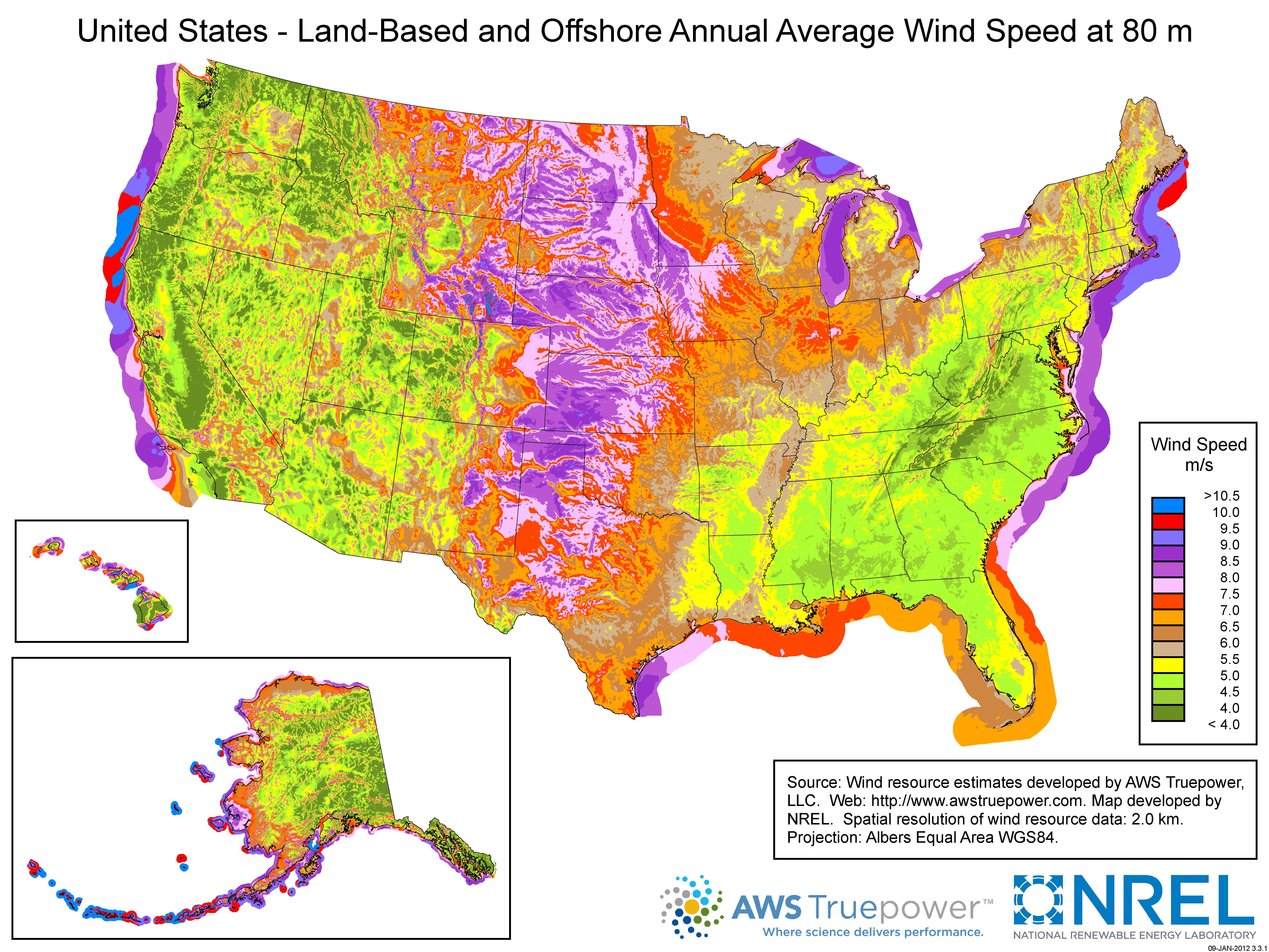 Wind power potential map